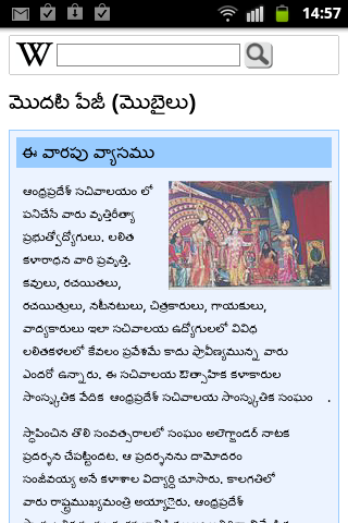 Telugu wikipedia Mobile first page Portrait mode